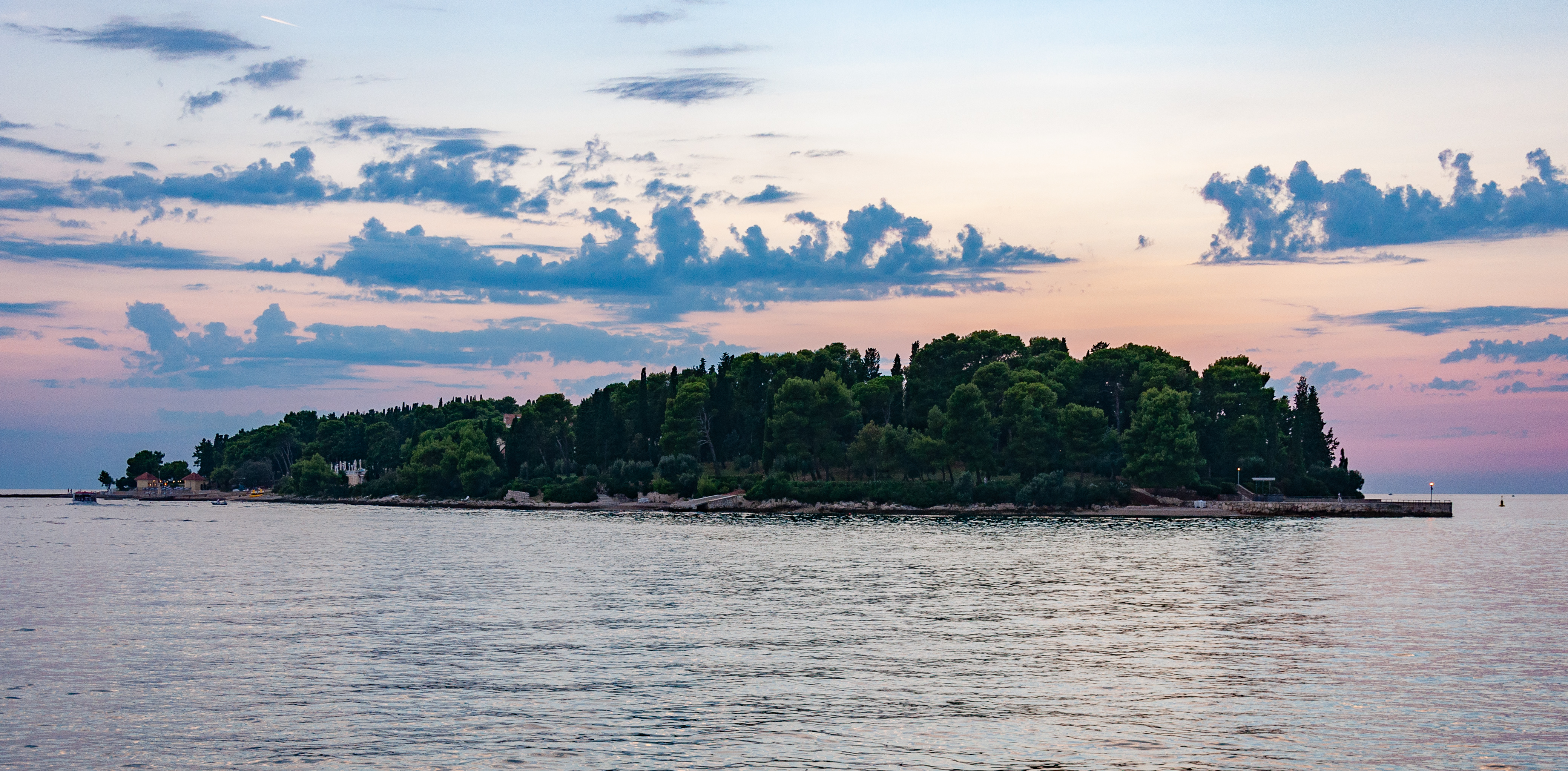 St. Catherine Island.